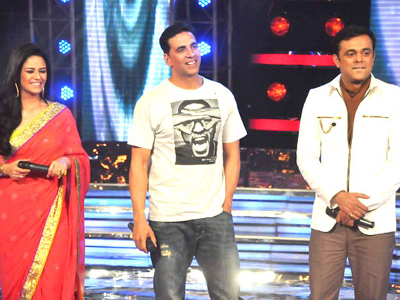 Sumeet Raghvan and Akshay Kumar on the sets of 'Star Ya Rockstar'